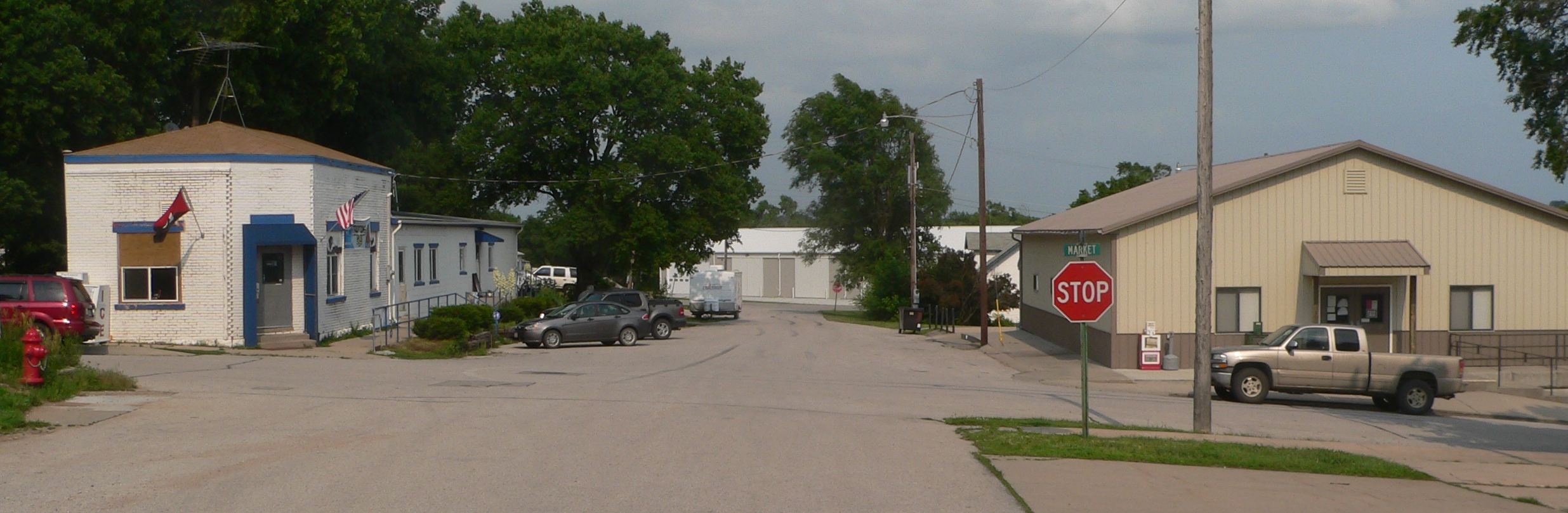 Downtown Sprague, Nebraska: Second Street, looking east toward Market Street.